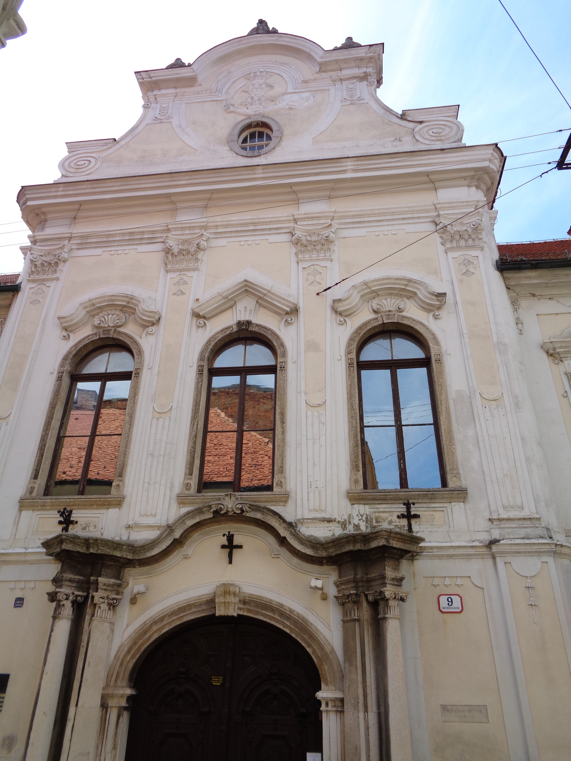 Oršić-Rauch Palace, Gornji grad, Zagreb, Croatia, also called Vojković Palace, built by Count Sigismund Vojković in 1764 - facade